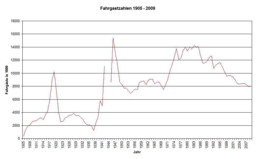 Number of Passengers of the Tramway of Innsbruck